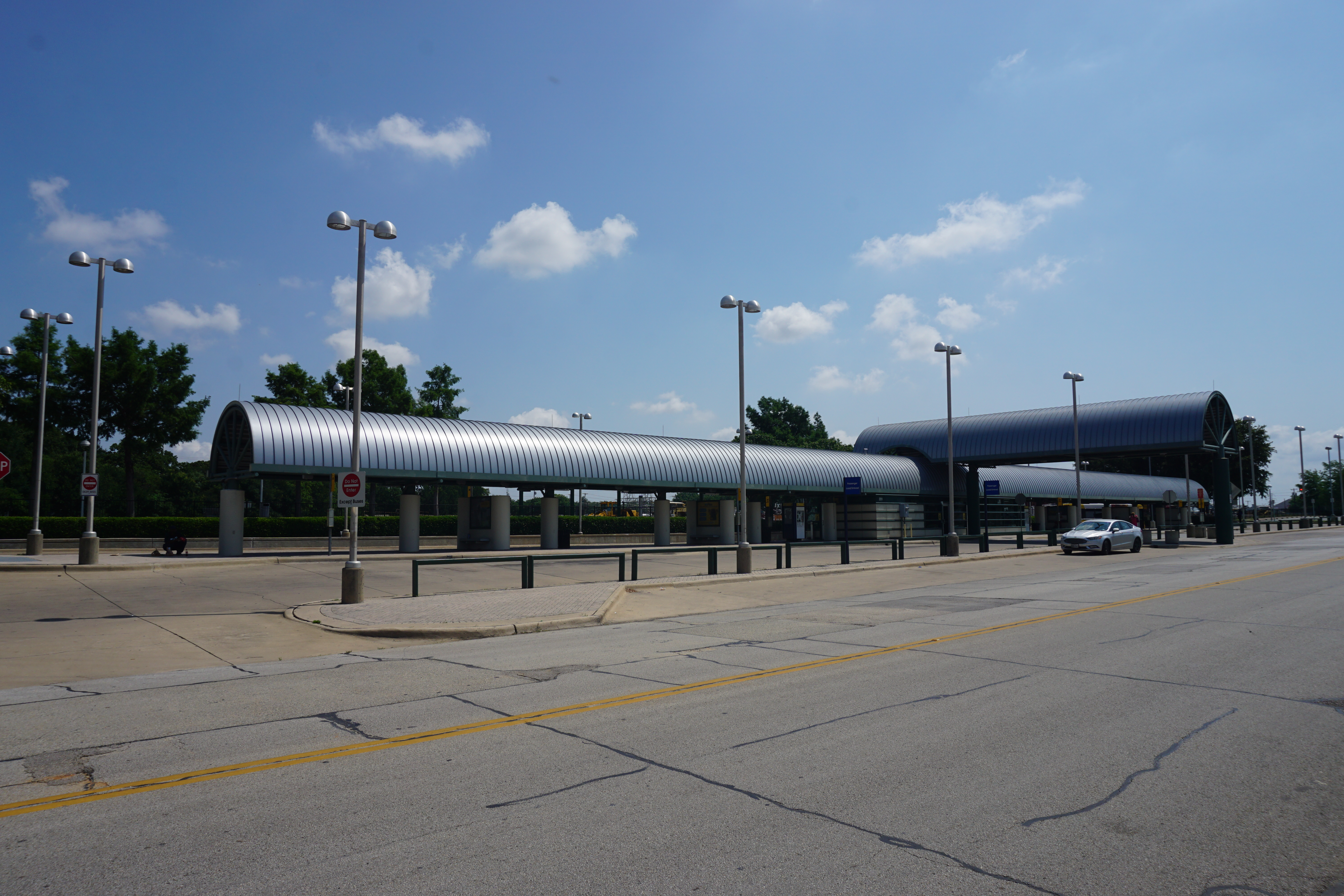 Downtown Irving/Heritage Crossing station in Irving, Texas (United States).